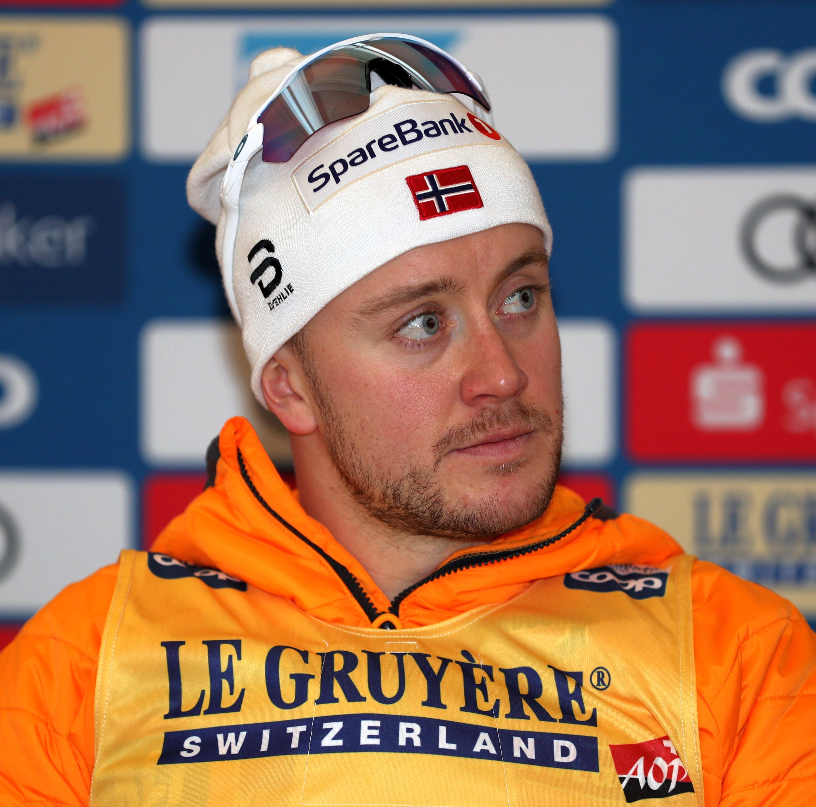 Press Conference at the FIS Cross-Country World Cup Dresden 2019